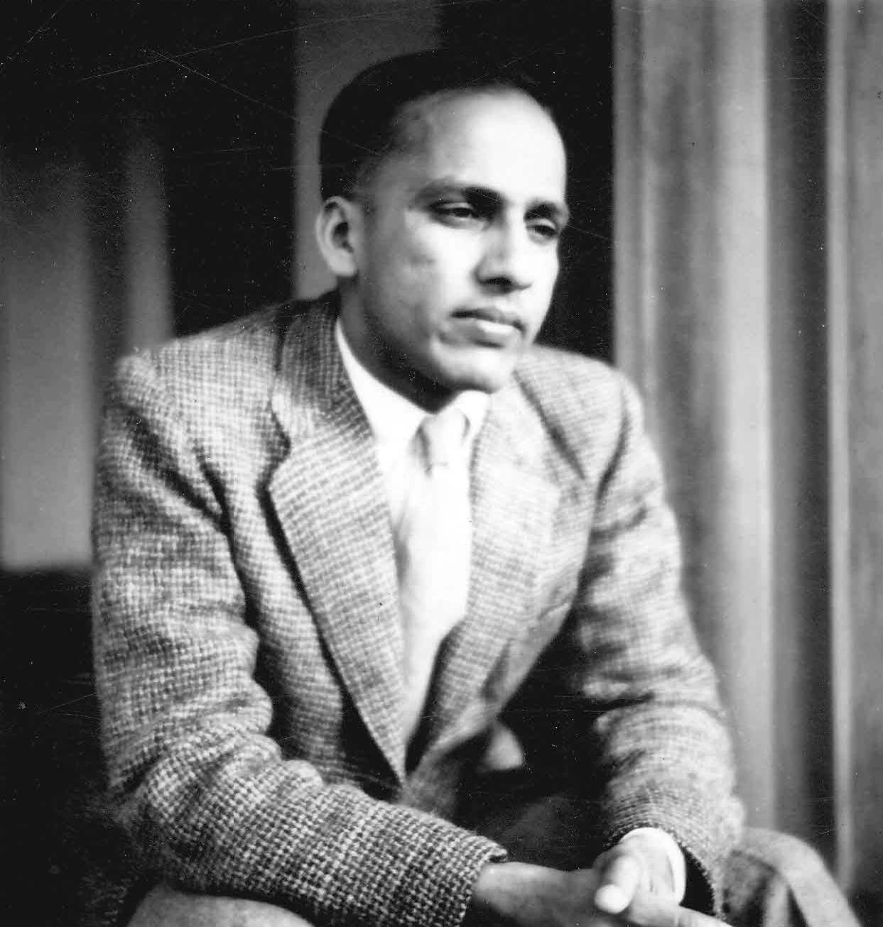 Indian Clinical Psychologist of repute; former head of the department of Clinical psychology - NIMHANS, Bangalore, Philosopher and writer